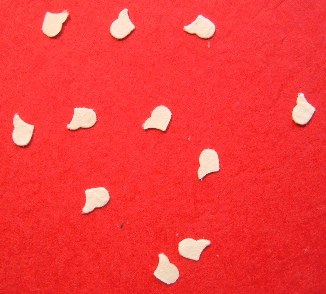 Chad (paper) produced by a railroad ticket punch. Each chad is approximately 4 mm in its longest dimension.